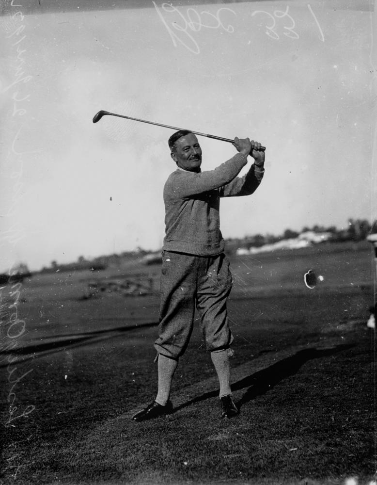 Sir Leslie Orme Wilson playing golf, 1932 Sir Leslie Wilson, Queensland's sporting Governor, who likes nothing better than propelling the pill on the links. Taken at the Royal Queensland Golf Club. See also 'Keen golfer' Brisbane Courier, 27 June 1932, p. 12. Sir Leslie Wilson who partnered by Doctor Wallis Hoare, defeated H. H. Cupples and J. F. Fitzgerald in a four ball match at Eagle Farm during the weekend. (Description supplied with photograph).